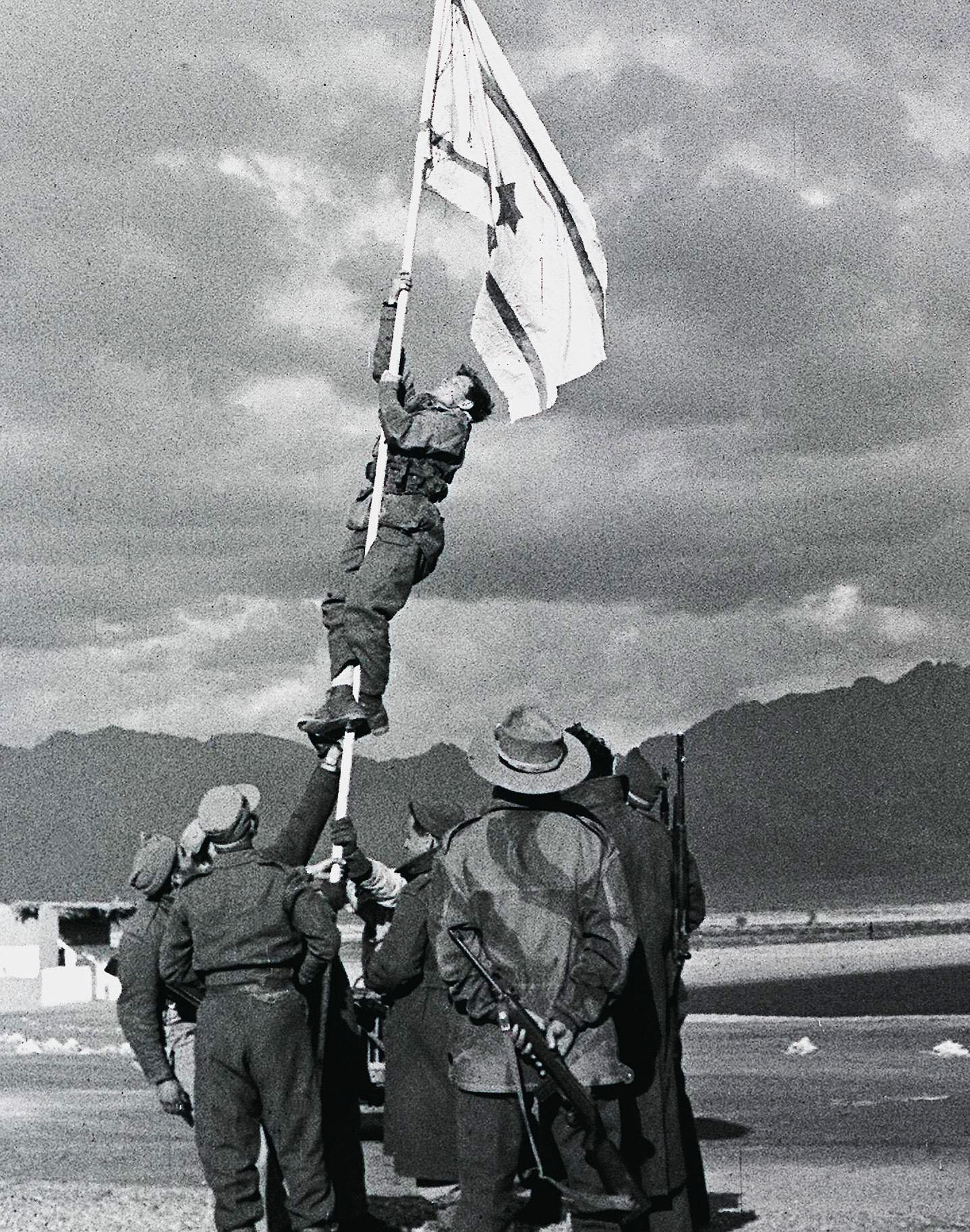 The ink-drawn national flag of Israel flies at Um Rashrash (now Eilat) across the Gulf of Aqaba on the northern tip of the Red Sea.